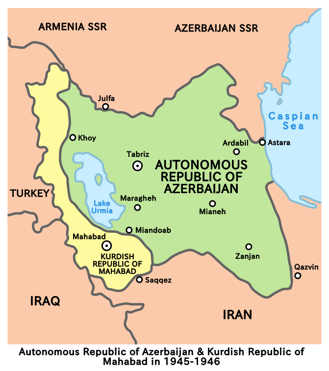 Kurdish Republic of Mahabad and Autonomous Republic of Azerbaijan in 1945-1946.